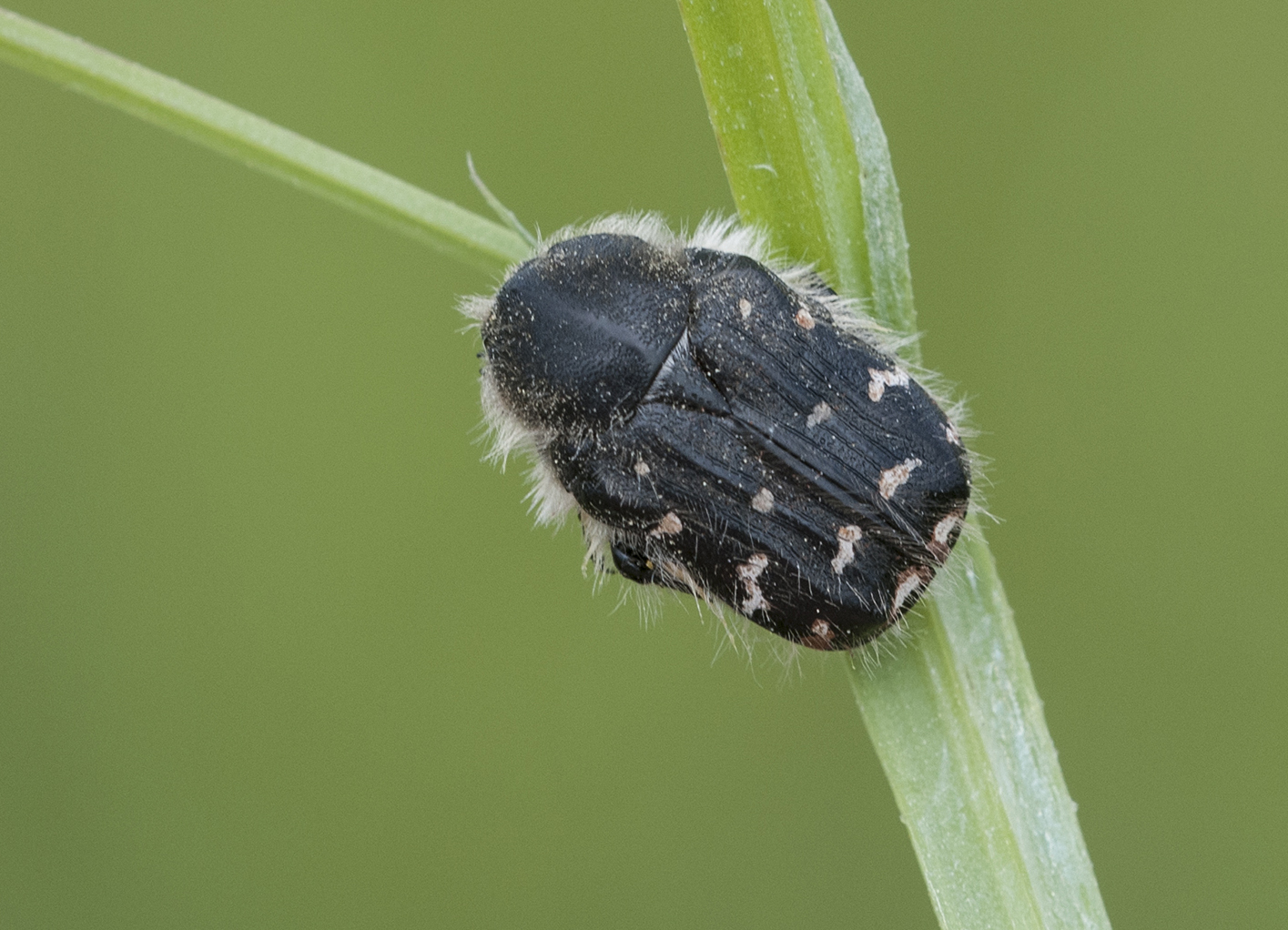 Blossom feeder (Tropinota hirta) on lathyrus branch. Balcalı, Adana - Turkey.